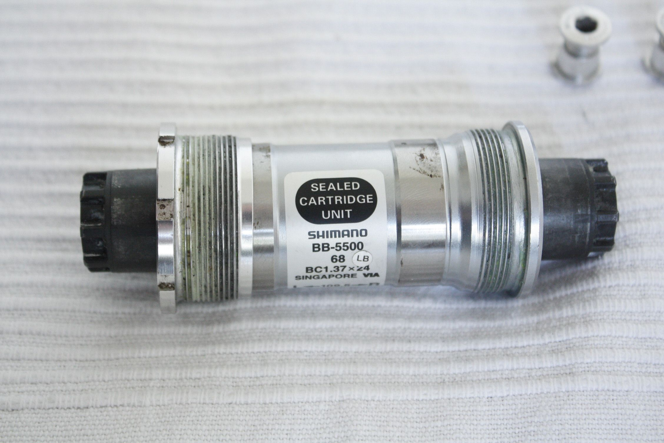 Bottom bracket